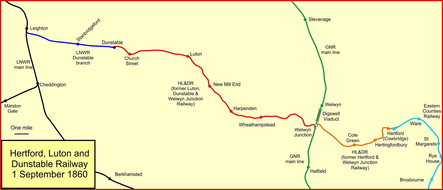 System map of the Hertford, Luton and Dunstable Railway, England, on the day of its full opening on 1 September1860